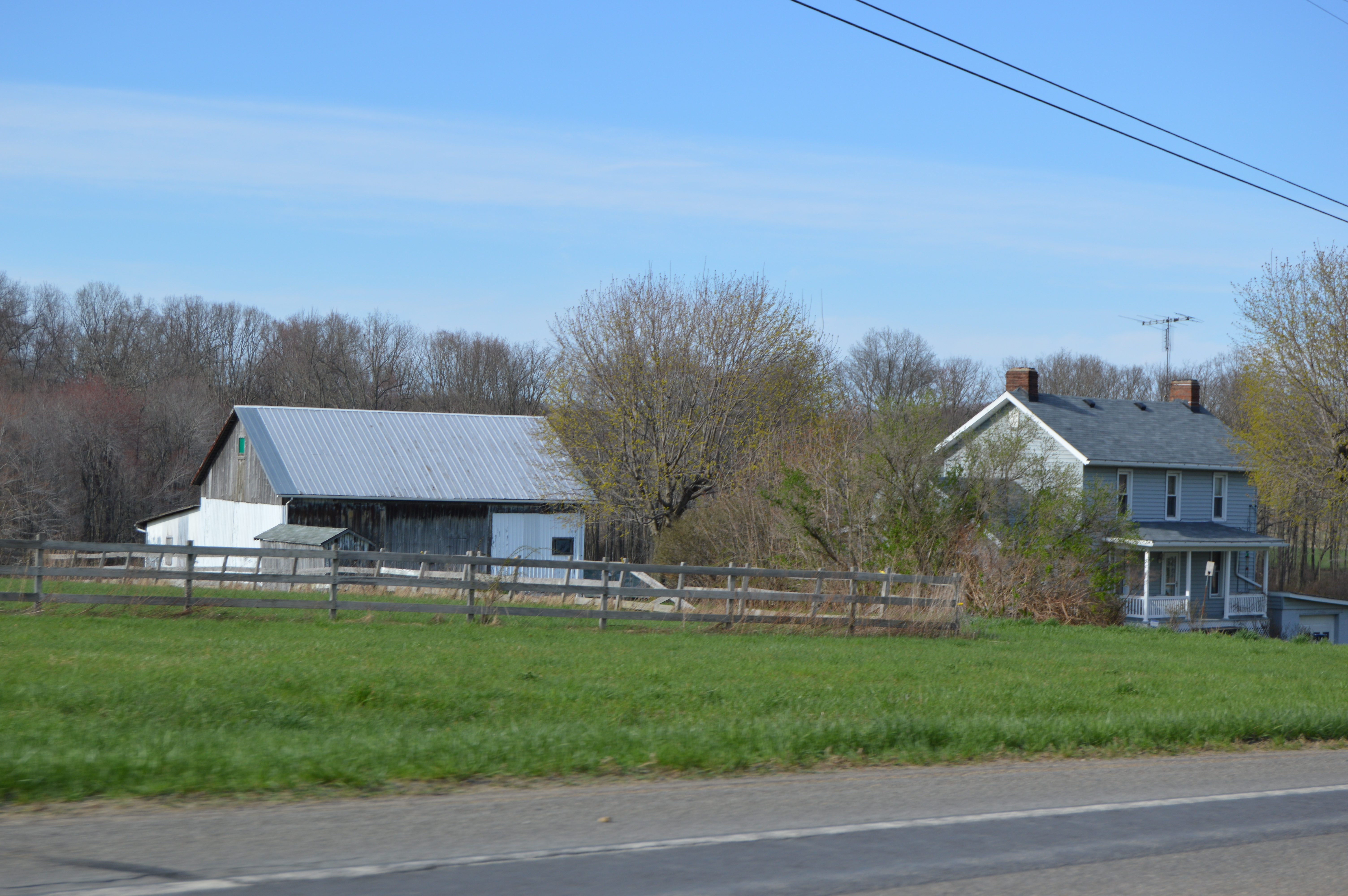 Roadside view of a farm on the northern side of Franklin Road (Pennsylvania Route 108) northeast of Slippery Rock in Slippery Rock Township, Butler County, Pennsylvania, United States.